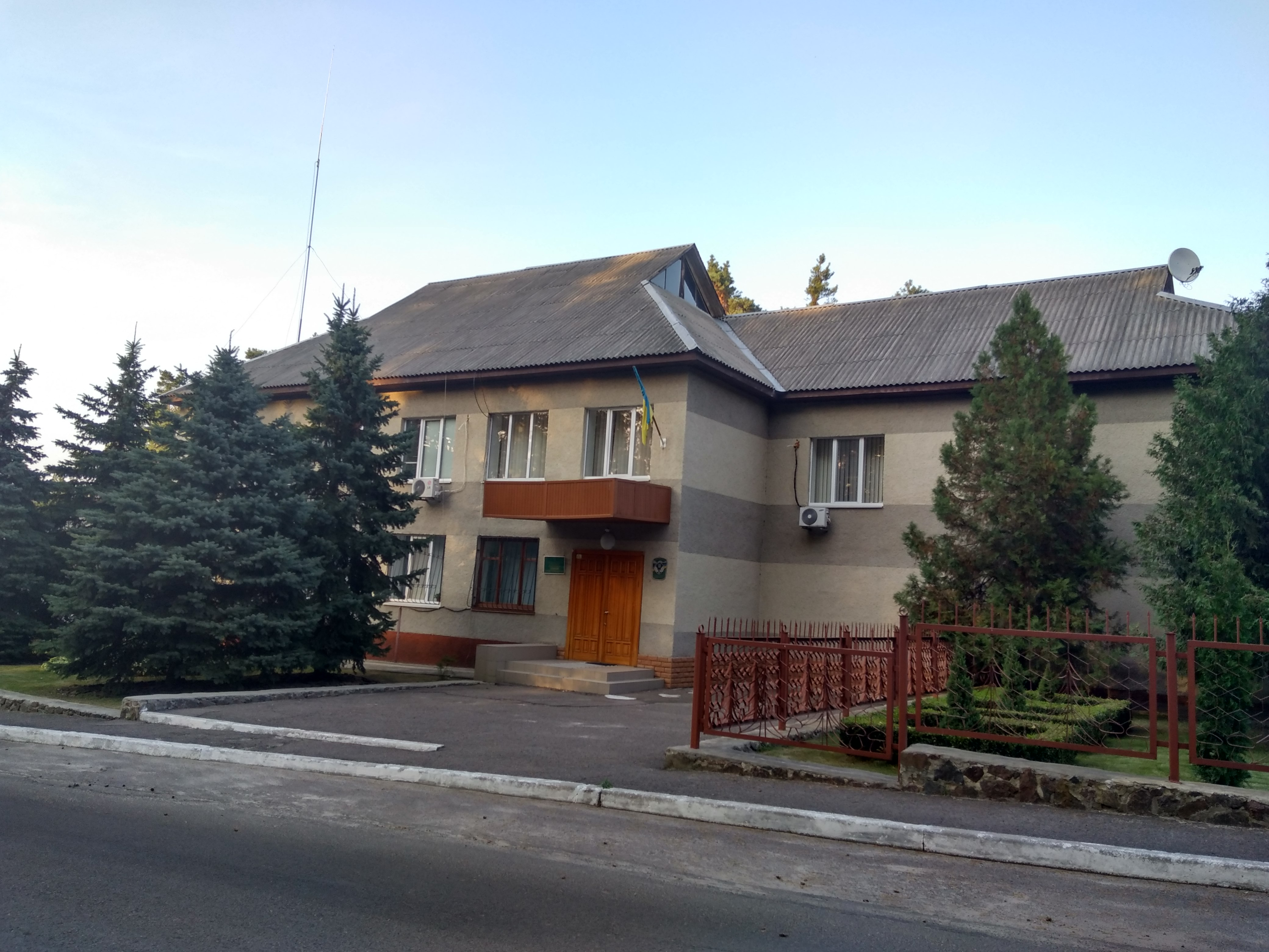 The building of Cherkasy forestry's administration. Cherkasy (Cherkasy Raion, Cherkasy Oblast, Ukraine)